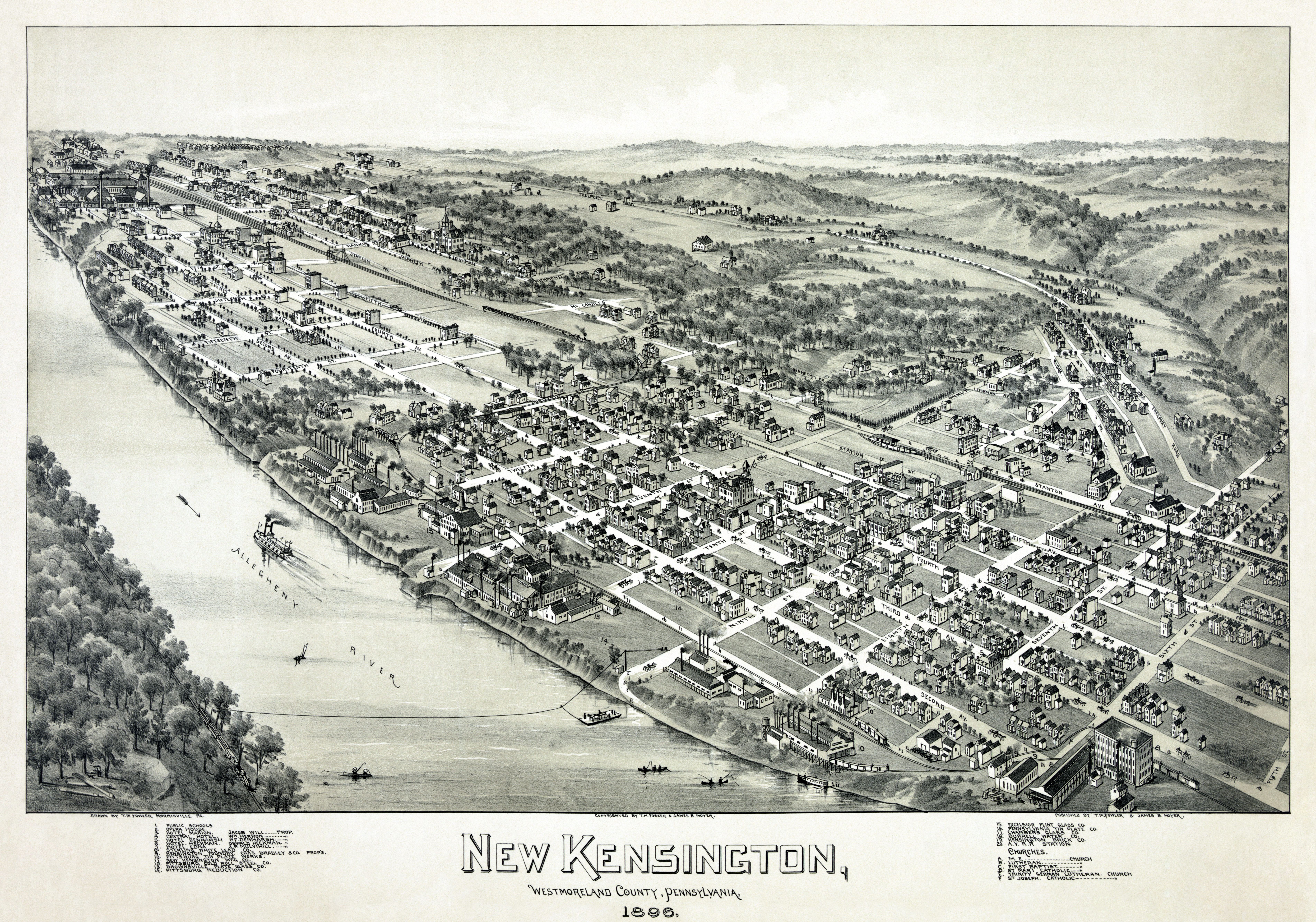 Thaddeus Mortimer Fowler's lithograph showing the town of New Kensington in 1896